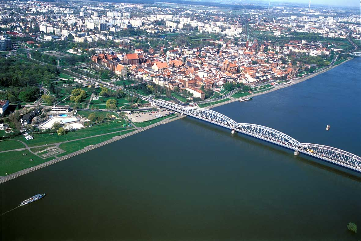 Torun (Poland), Old Town